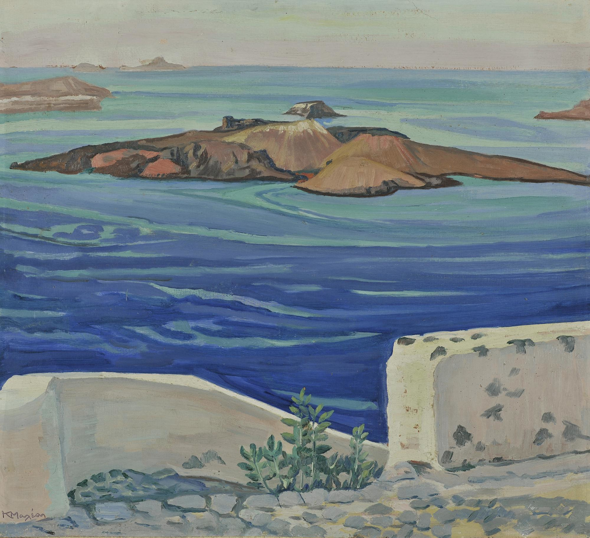 Kammeni, Santorini